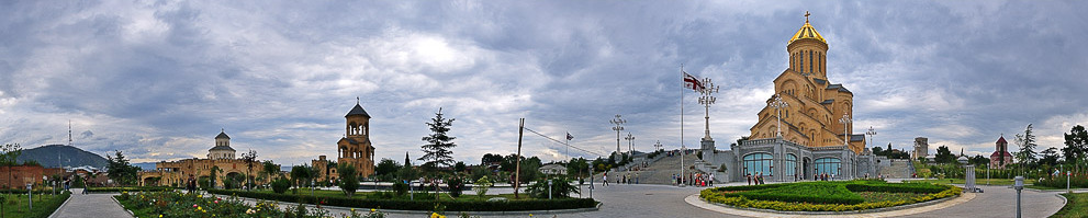 Tbilisi Sameba Cathedral